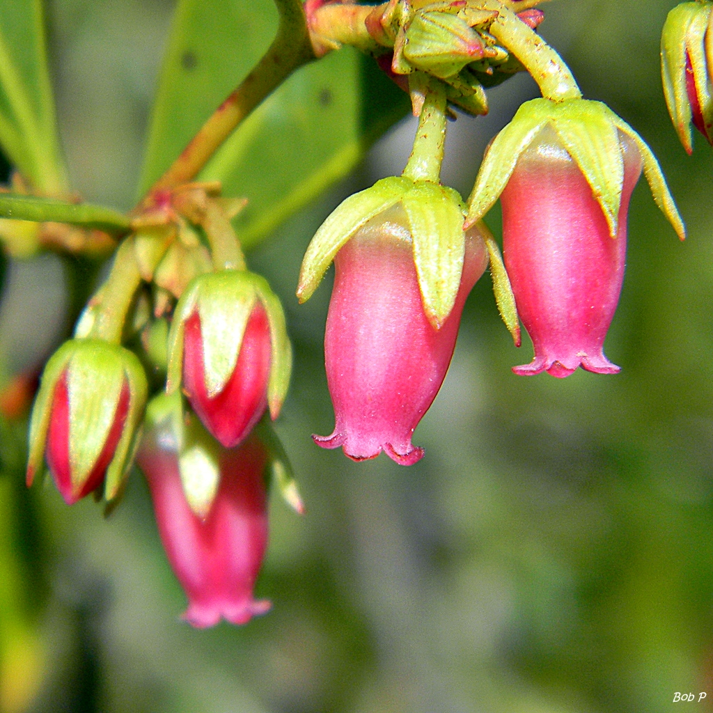 One of my favorite native shrubs! I found them blooming this morning in the scrub at Jupiter Ridge Natural Area. The flowers are tiny (if they were the size of tulips, everyone would want one). Hug a shrub today!